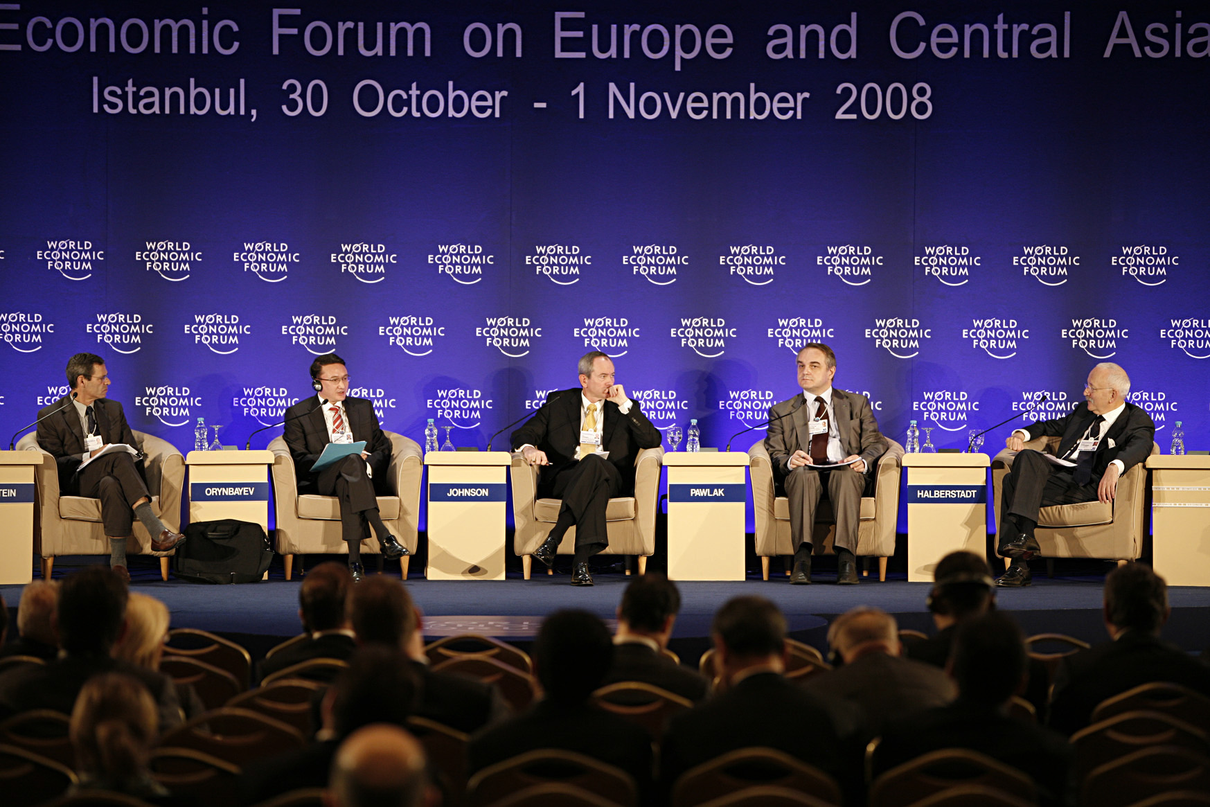 ISTANBUL/TURKEY, 31OCT08 - fltr Waldemar Pawlak, Deputy Prime Minister and Minister of Economy of Poland, Victor Halberstadt, Professor of Public Economics, Leiden University, Netherlands during the session "Turkey: Combining Europe and Asia" at the World Economic Forum on Europe and Central Asia in Istanbul, 30 October - 1 November 2008. Copyright World Economic Forum ( by Serkan Eldeleklioglu-Bora Omerogullari-Ozan Atasoy